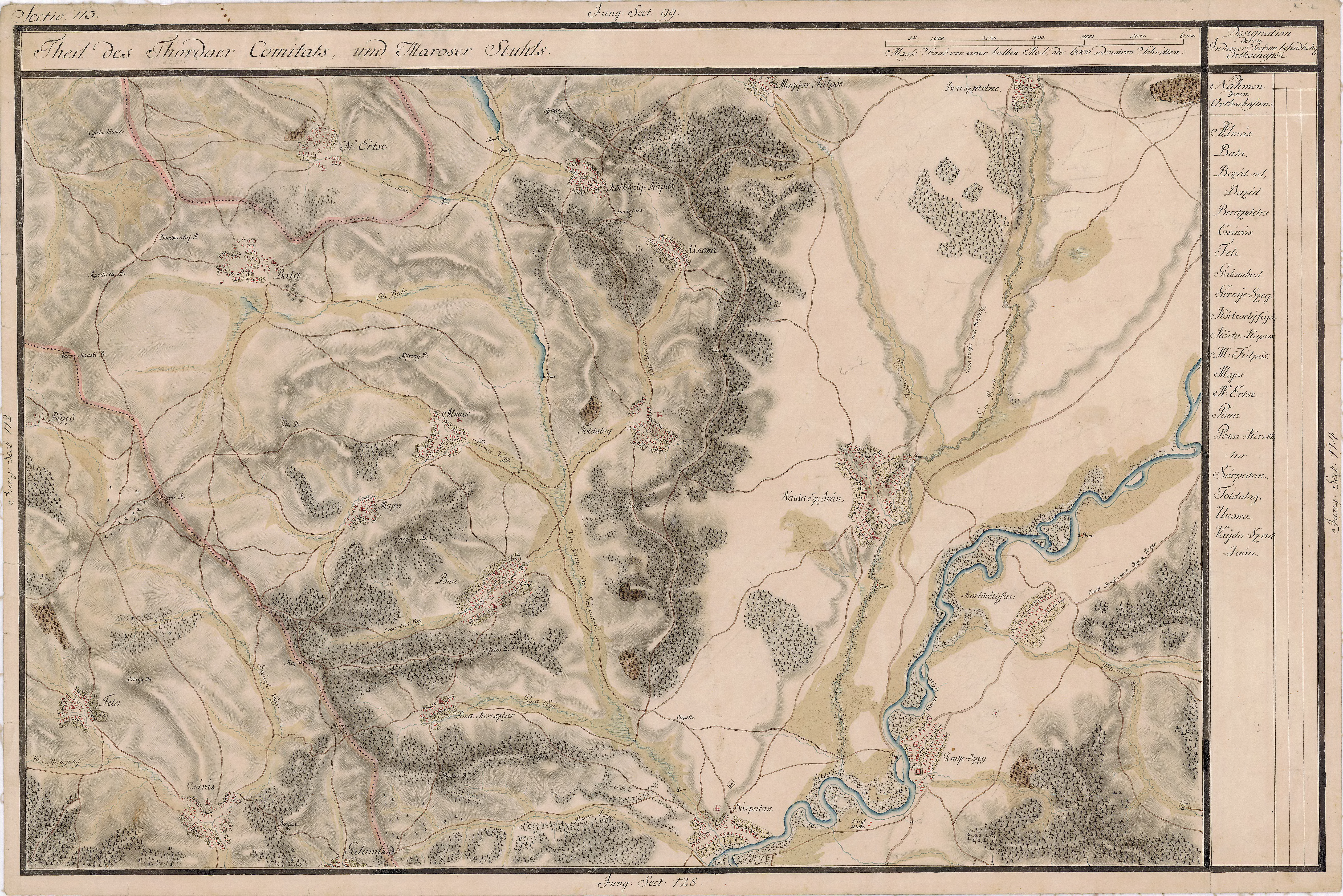 Grand Duchy of Transylvania, 1769-1773. Josephinische Landaufnahme pg.113